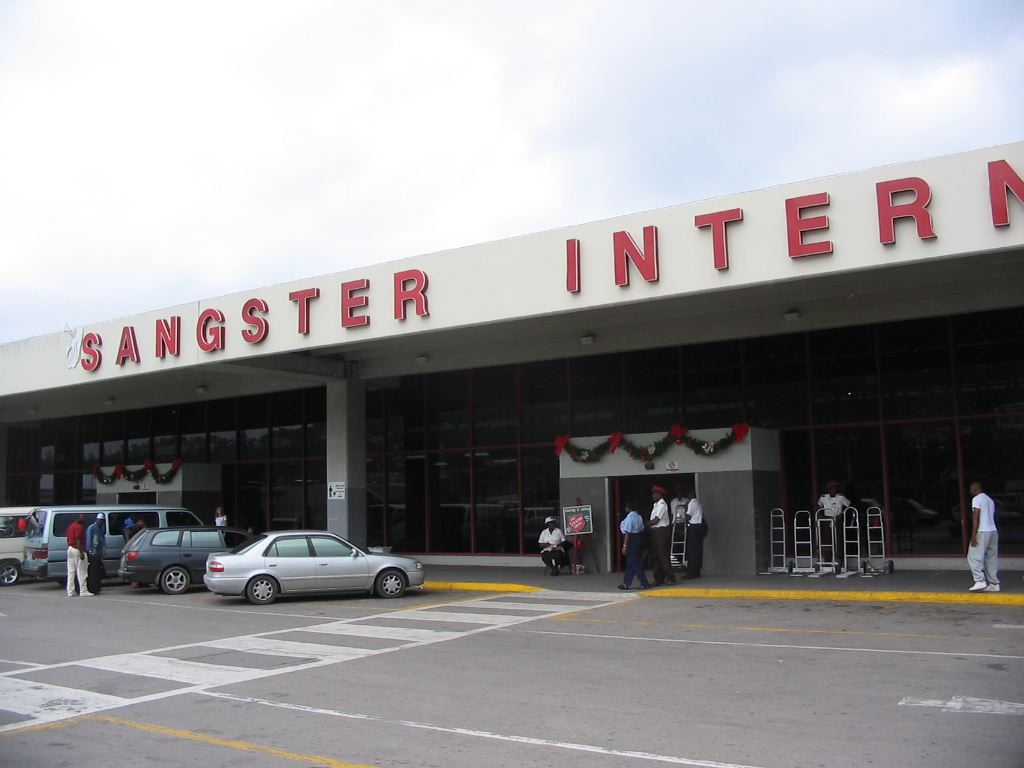 w: Sangster International Airport is an international airport in Montego Bay, Jamaica, and is one of the largest, busiest and most modern airports in the Caribbean